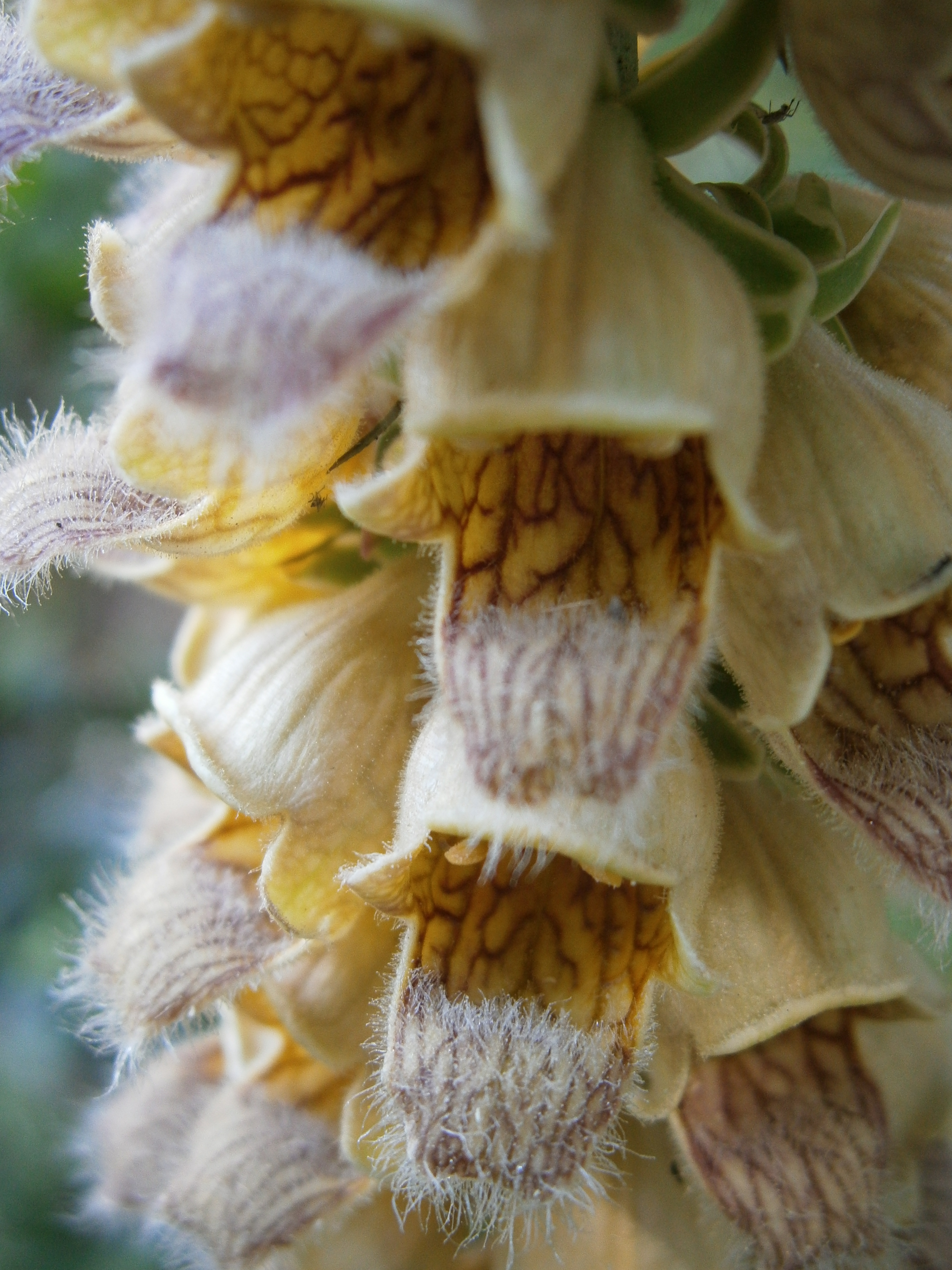 Digitalis ferruginea detail